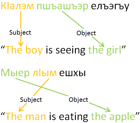 Transitive verbs that have an ergative case subjects